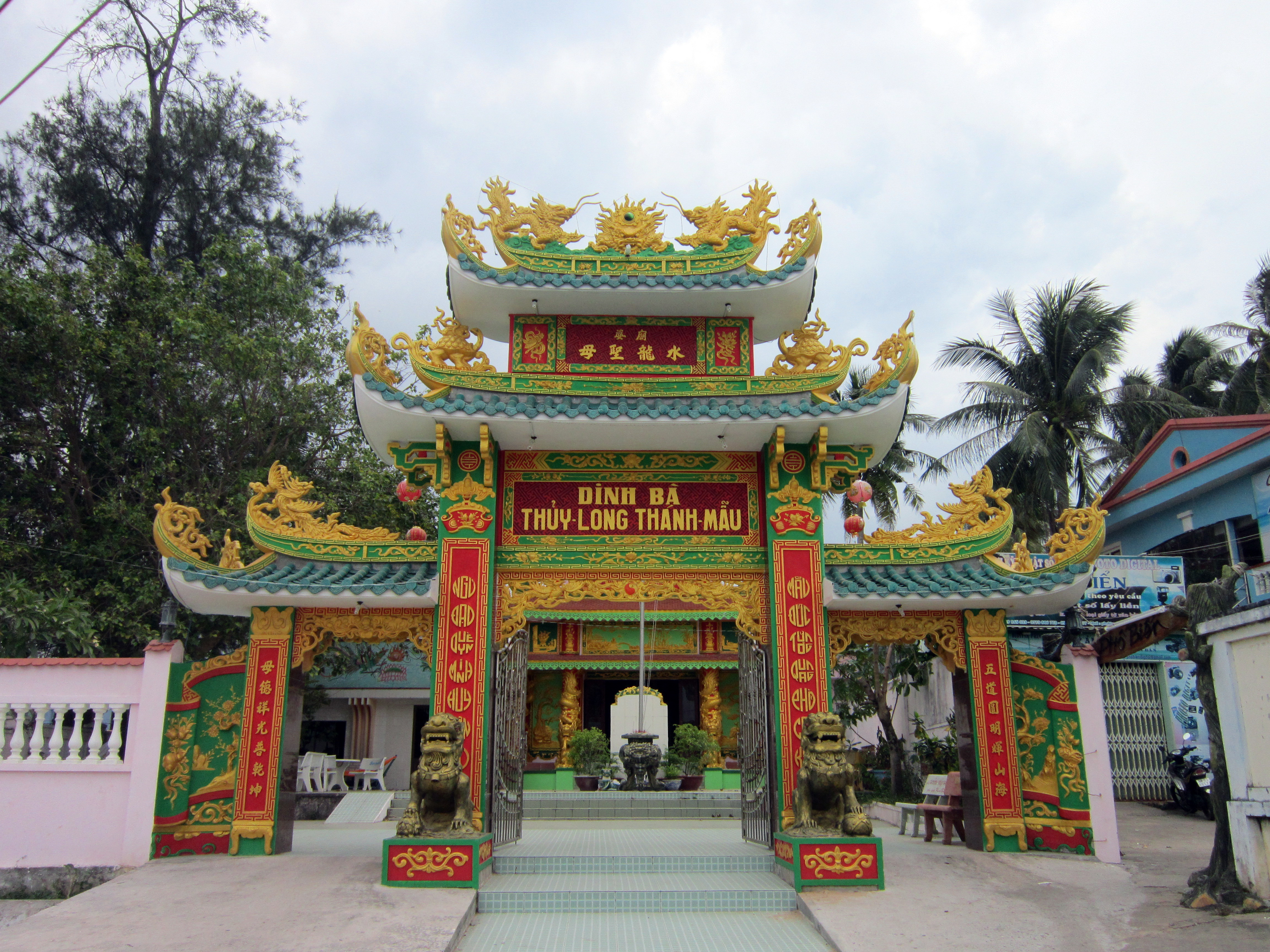 Dinh Bà Thủy Long Thánh Mẫu (gọi tắt là Dinh Bà) tọa lạc trên đường Võ Thị Sáu (gần Dinh Cậu), thị trấn Dương Đông, huyện Phú Quốc, tỉnh Kiên Giang, Việt Nam. Không rõ năm dựng, chỉ biết lúc đầu được làm bằng cột trai, mái tranh vách ván. Do thời gian và chiến tranh tàn phá, dinh được trùng tu nhiều lần mới được đẹp đẽ và khang trang như ngày nay.